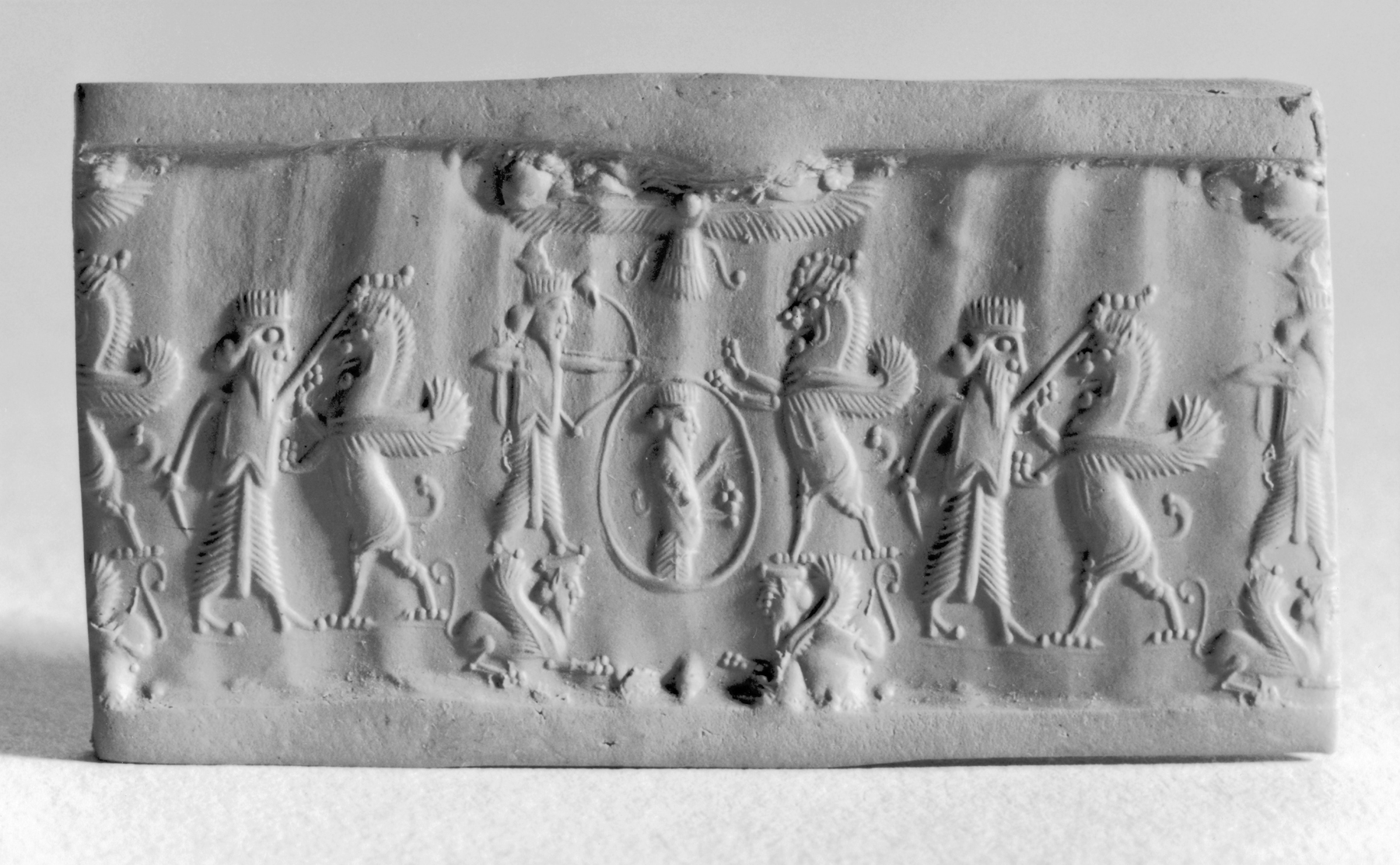 Although the Achaemenids used stamp seals for private documents, cylinder seals continued to be used for official royal business. This seal depicts the king fighting a lion-griffin in two scenes. First, he engages in close combat with the lion-griffin. Second, the king, standing on a reclining sphinx, aims his bow at the mythical beast, also standing on a sphinx. Between them is the benign god Ahura Mazda in an oval cartouche, with a winged disk above.